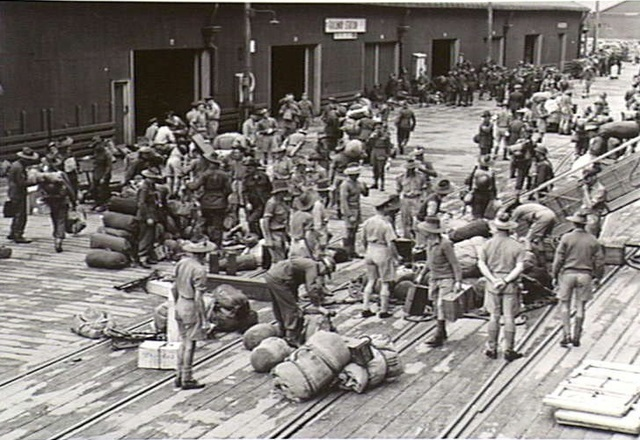 Troops from the Australian 7th Division disembarking in Adelaide, March 1942, after their return from the Middle East